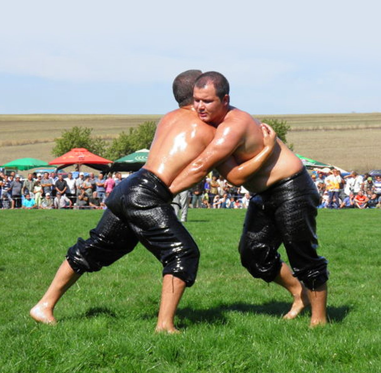 Oil wrestling in Ruen, Ruen Municipality